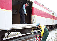 Cuyahoga Valley Scenic Railroad staff will load and transport bikes for free when you purchase a Bike Aboard ticket.